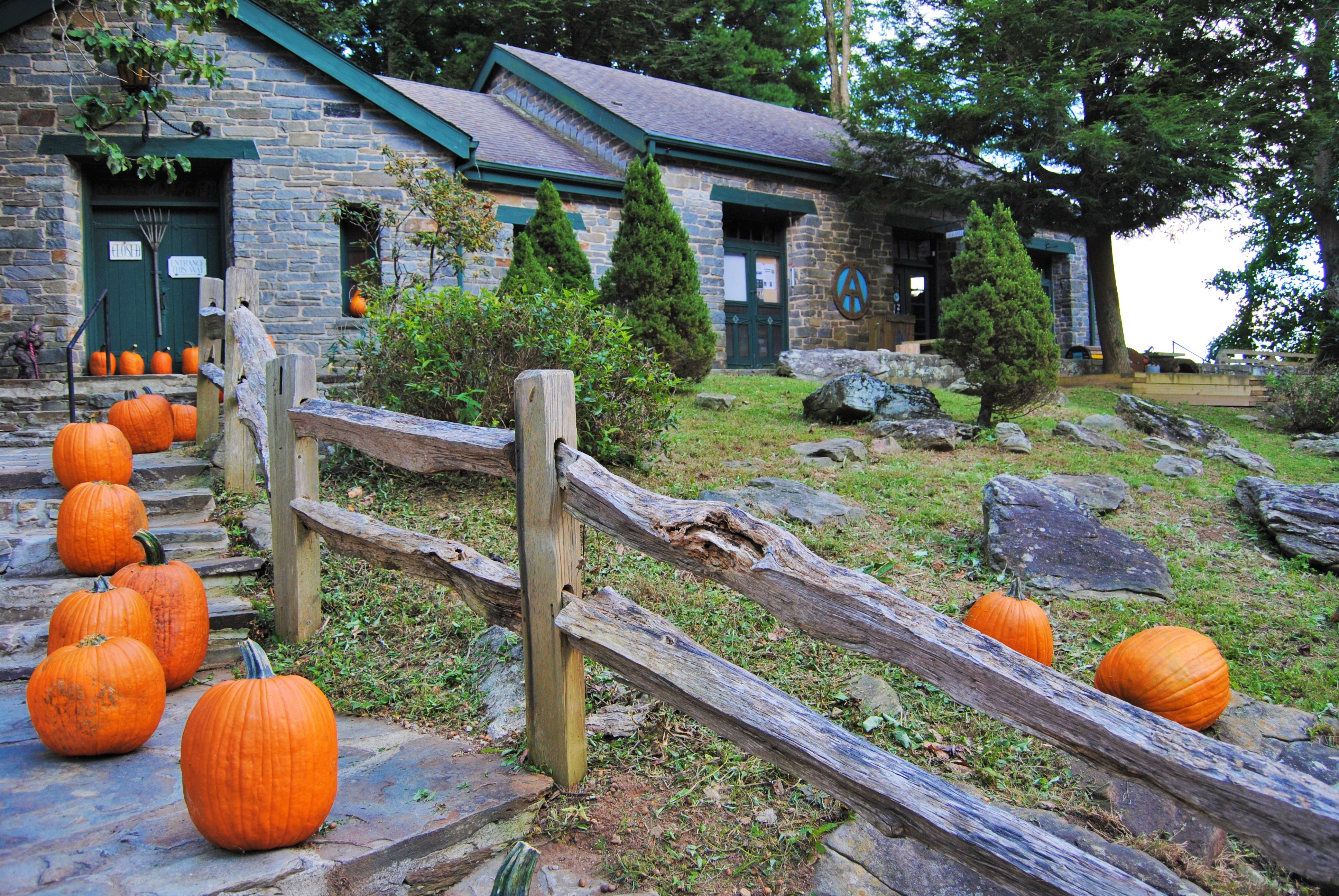 Walasi-Yi Inn, S of Blairsville on U.S. 129 Blairsville